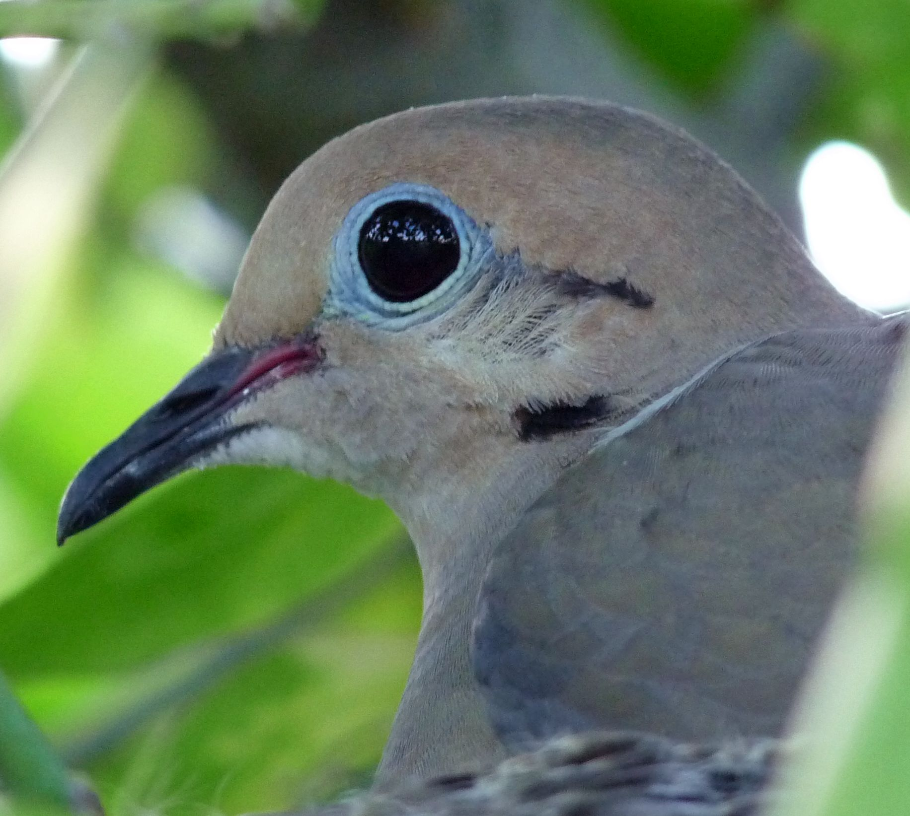 Mourning Dove (also called the American Mourning Dove or Rain Dove). Upper body.